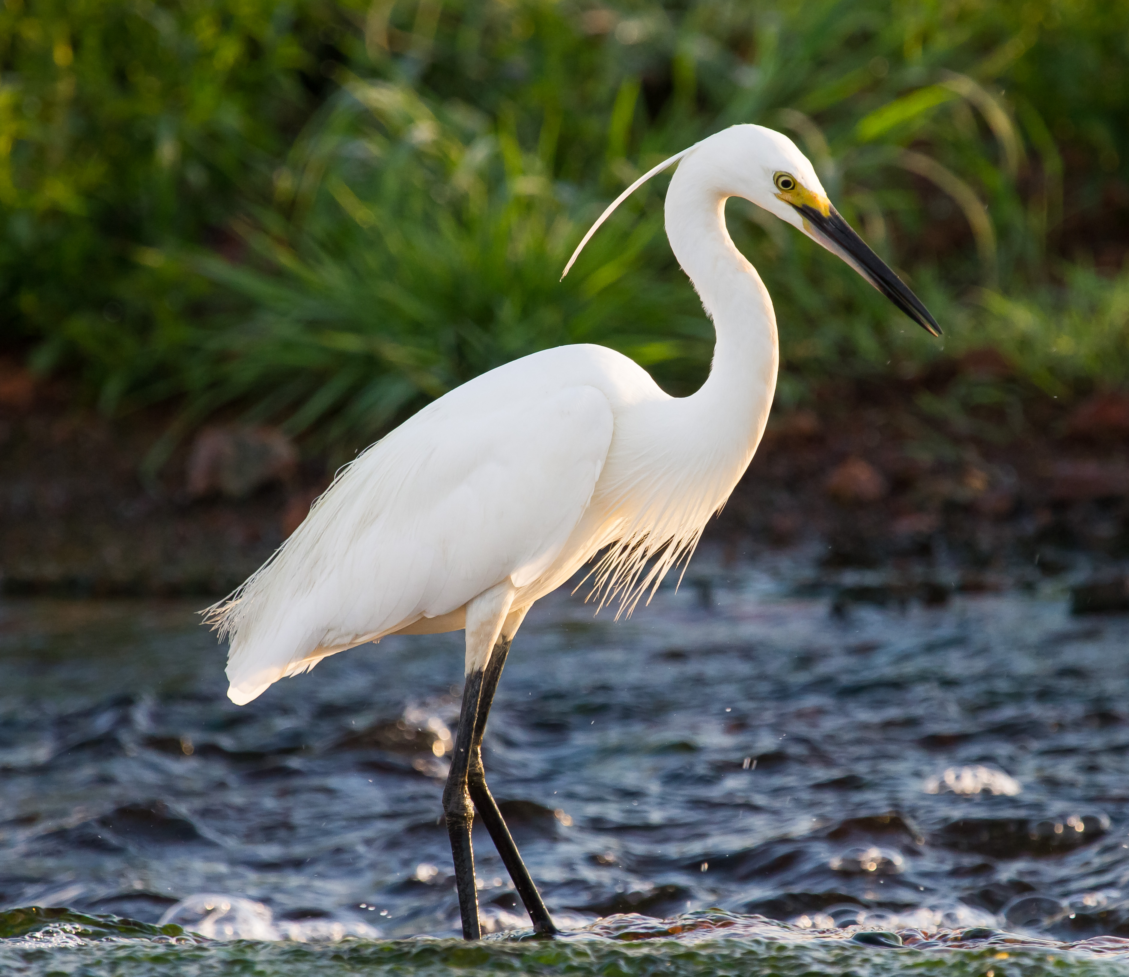 Little Egret - Fogg Dam, Middle Point, Northern Territory, Australia